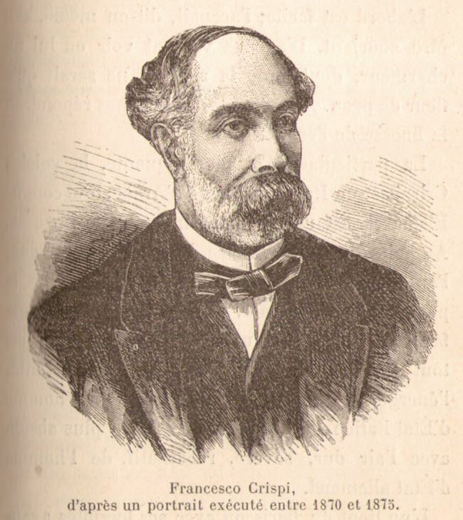 The Italian politician Francesco Crispi (1818-1901)